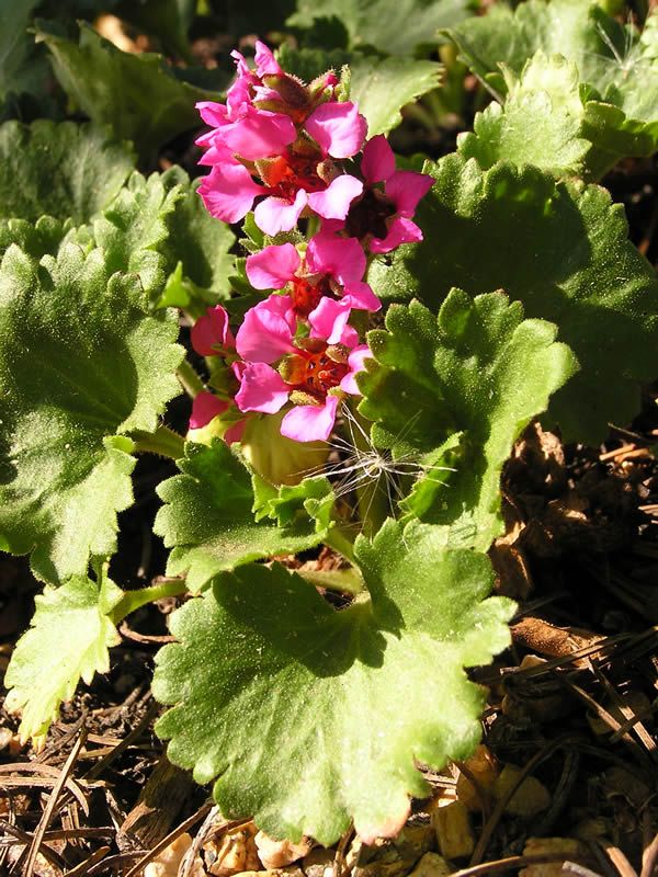 Telesonix jamesii USFS photo